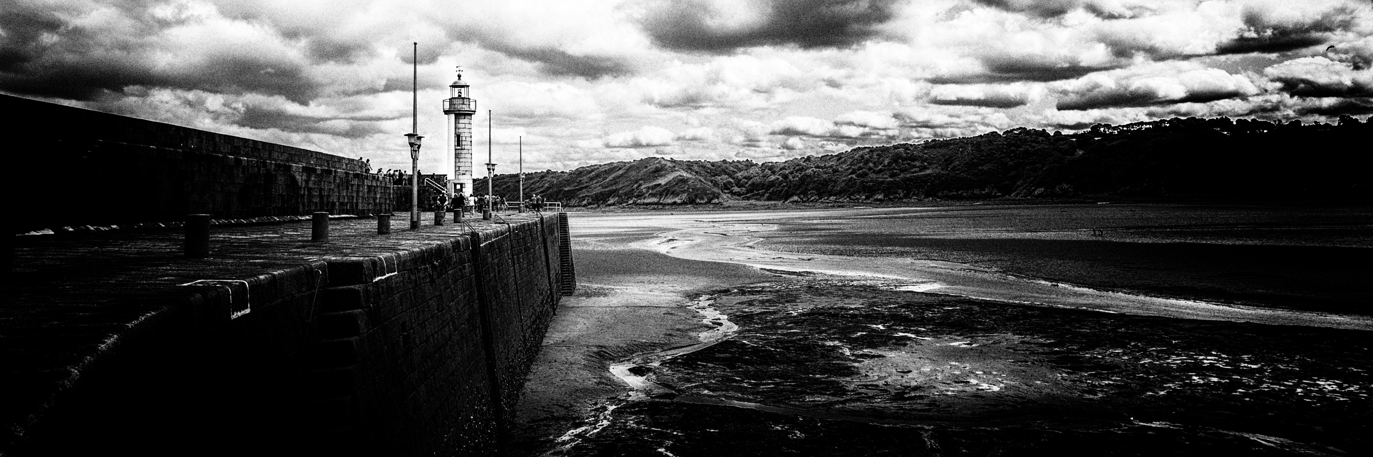 Panoramic view of the Lighthouse of Binic located at Pier of Penthièvre.